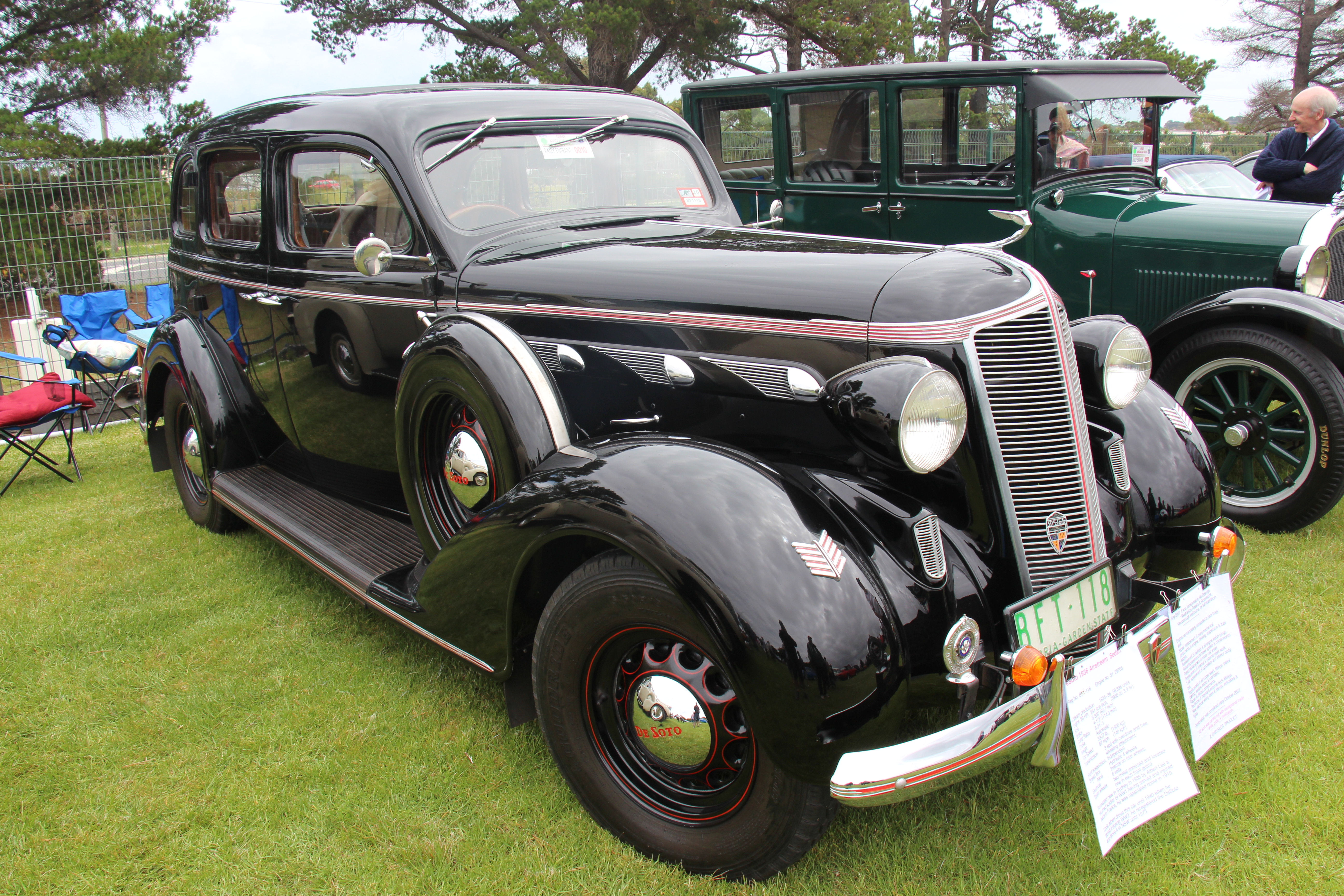 The DeSoto was a brand of automobile, manufactured and marketed by the Chrysler Corporation from 1928 to 1961. The DeSoto Airstream was sold from 1935-36 and was sold along with the streamlined and upmarket DeSoto Airflow. While streamlined and aerodynamic, the Airflow was not embraced by the public and many more Airstreams were sold. The Airstream was available in 4 door sedan, 2 door coupe and 2 door convertible. In 1936 the Airstream was split into two trim levels, Deluxe and Custom. Deluxe models had one piece windshields while Customs (exp. the convertible) had two piece units Engine; 241.5 cu in 6 cyl